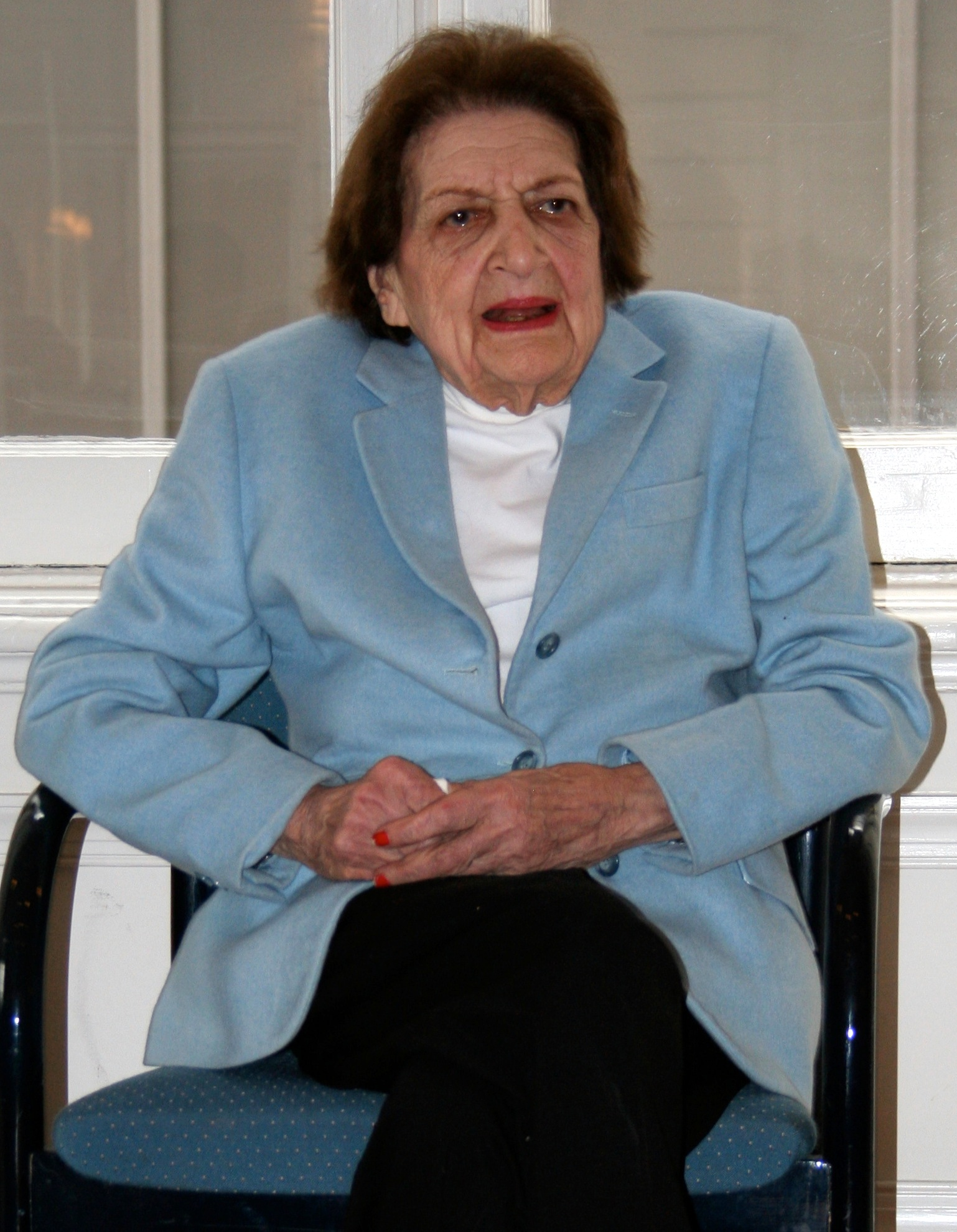 Helen Thomas meeting students from Maxwell School of Citizenship and Public Affairs in Washington D.C.